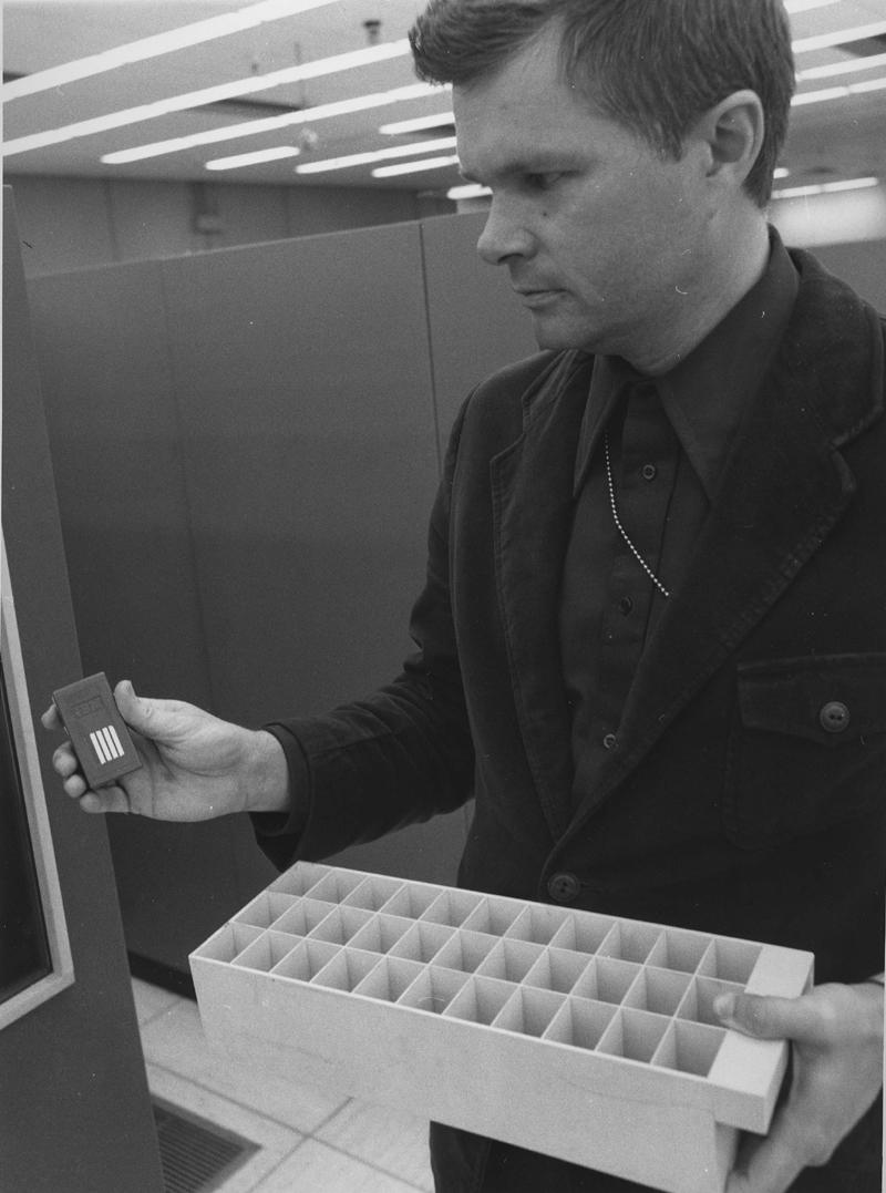 John Fletcher of Lawrence Livermore holds an IBM 1360 Photostore chip box in his right hand, and a loading tray in his left. The chip box holds 32 "chips", small pieces of semi-rigid photographic film that was used to store digital data. Multiple chip boxes are loaded into the tray which is then loaded into one of the removable slots in the photostore. The robotic system the removes the boxes from the tray for reading or writing.